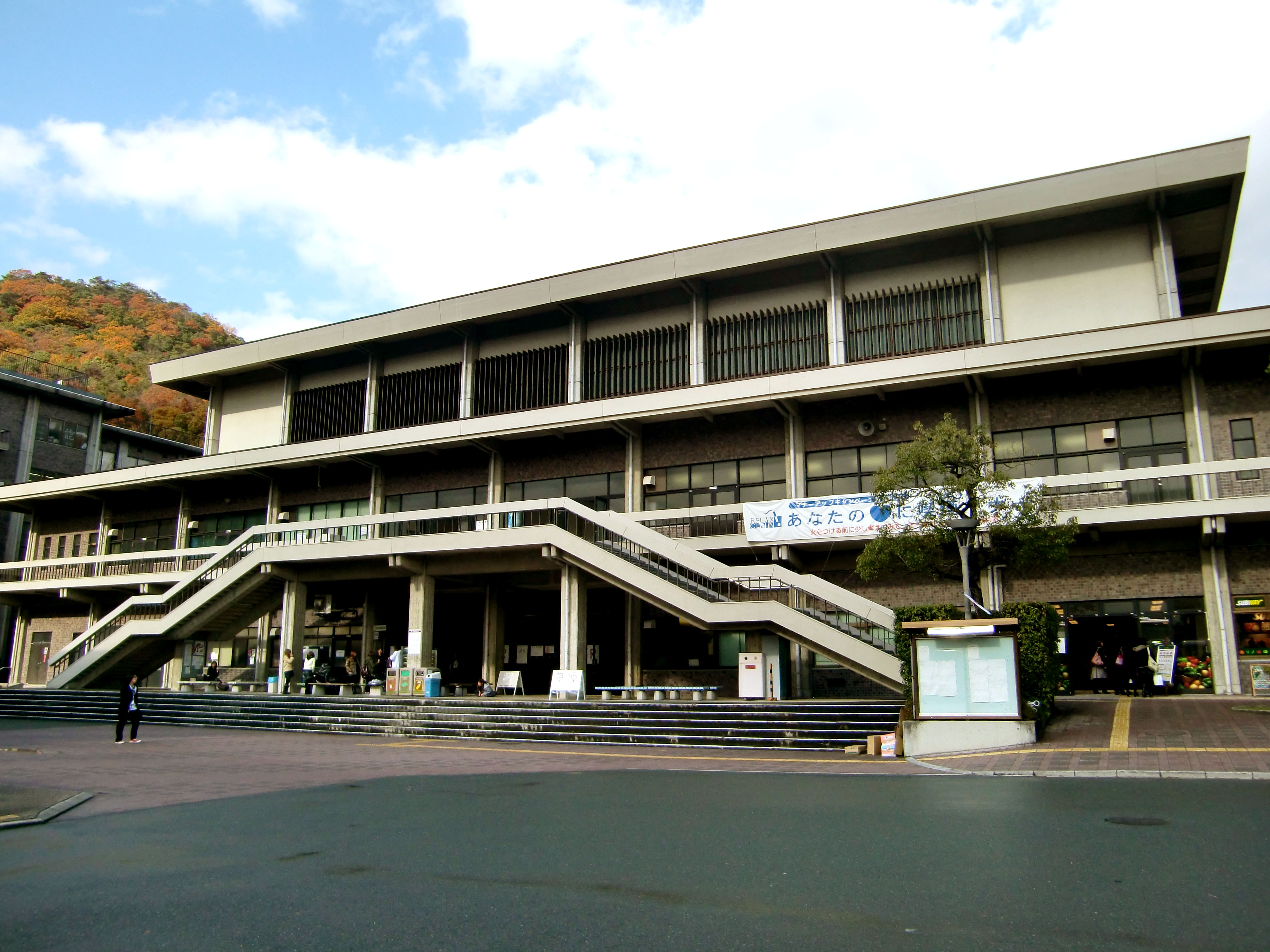 Ritsumeikan University Gymnasium1,Tojiinkitamachi Kita-ku Kyoto-City JAPAN.